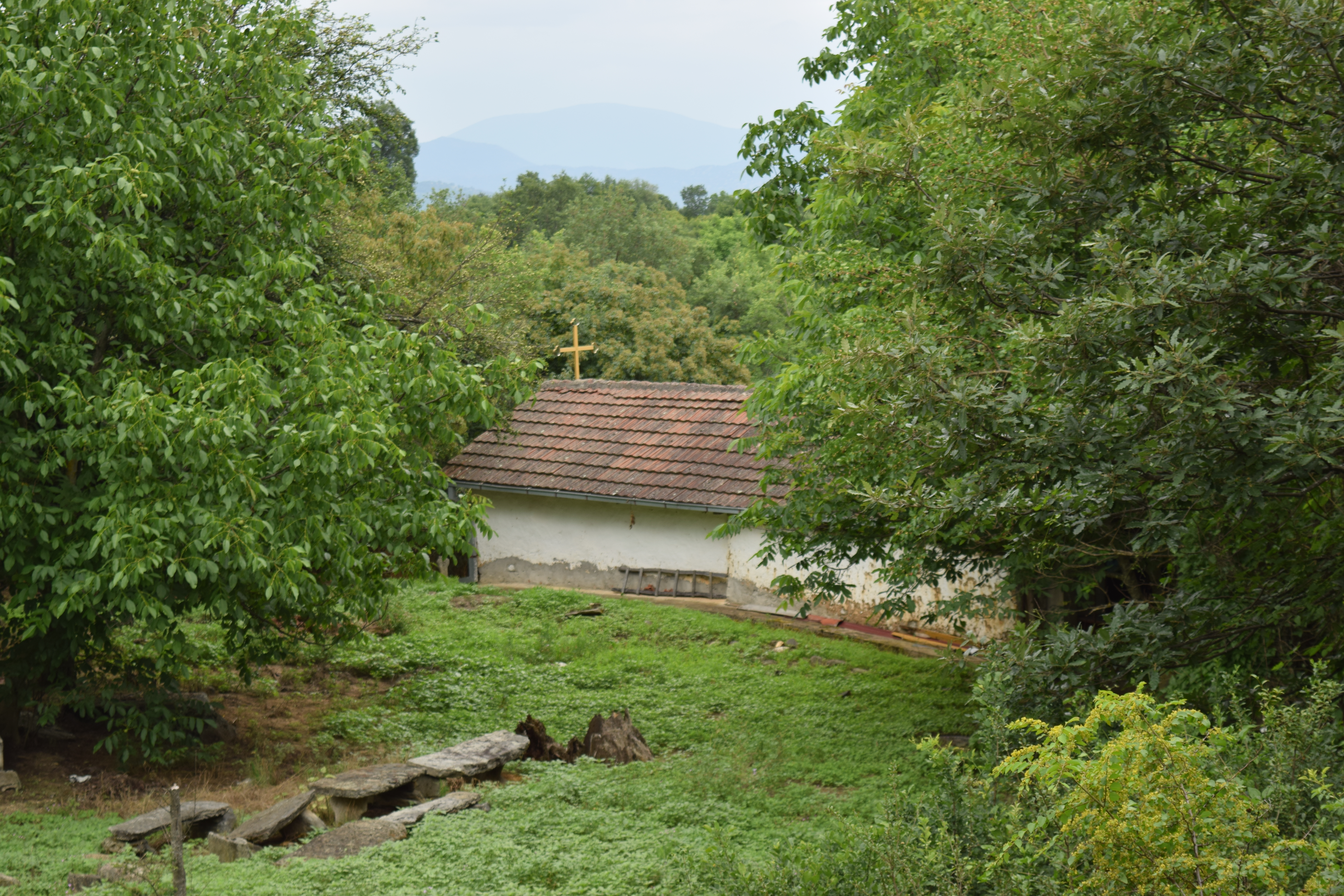 Entry of the St. George's Church in the village Bistrica